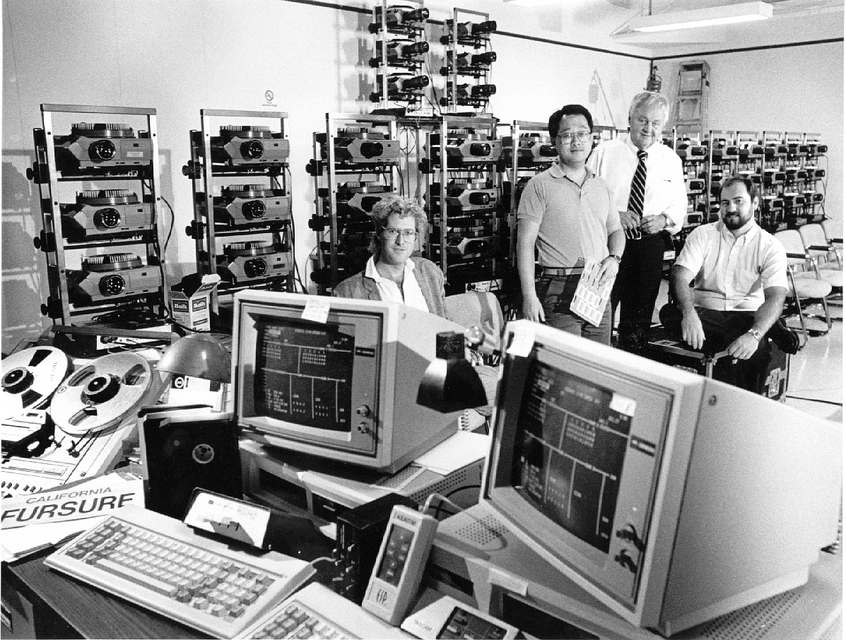 Partial setup for programming of screen control for the 1987 Ford New Car Announcement Show, Detroit, MI. From left: Brad Smith, art director; Sung Soo Lee, creative director/producer; Bob Kassal, executive producer; Paul Jackson, programmer/producer